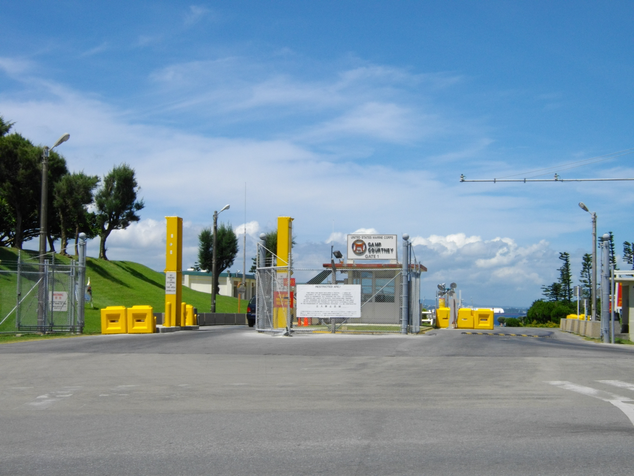 Camp Courtney Gate 1